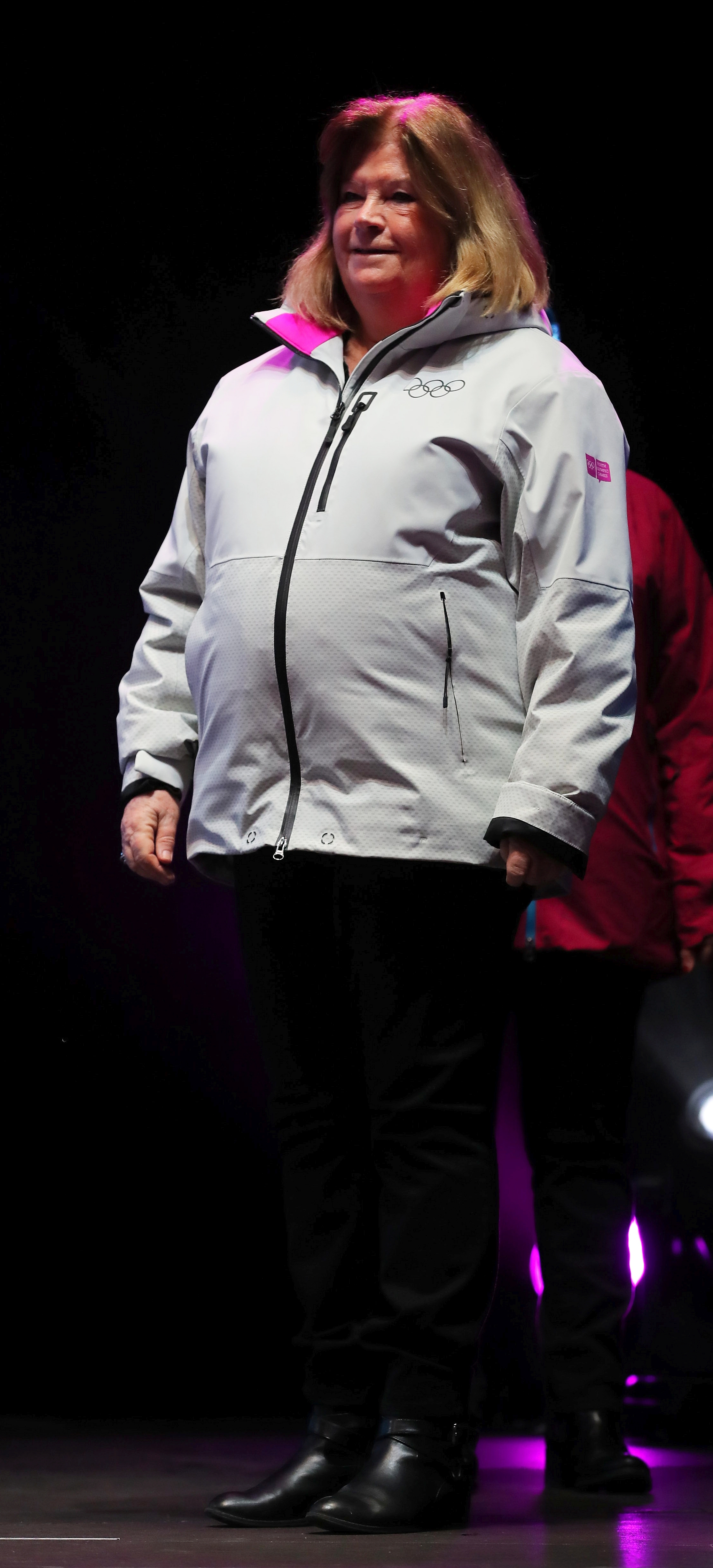 Medal Ceremony of Freestyle skiing – Men's Ski Cross – Medal Ceremony at the 2020 Winter Youth Olympics in Lausanne on 19 January 2020.